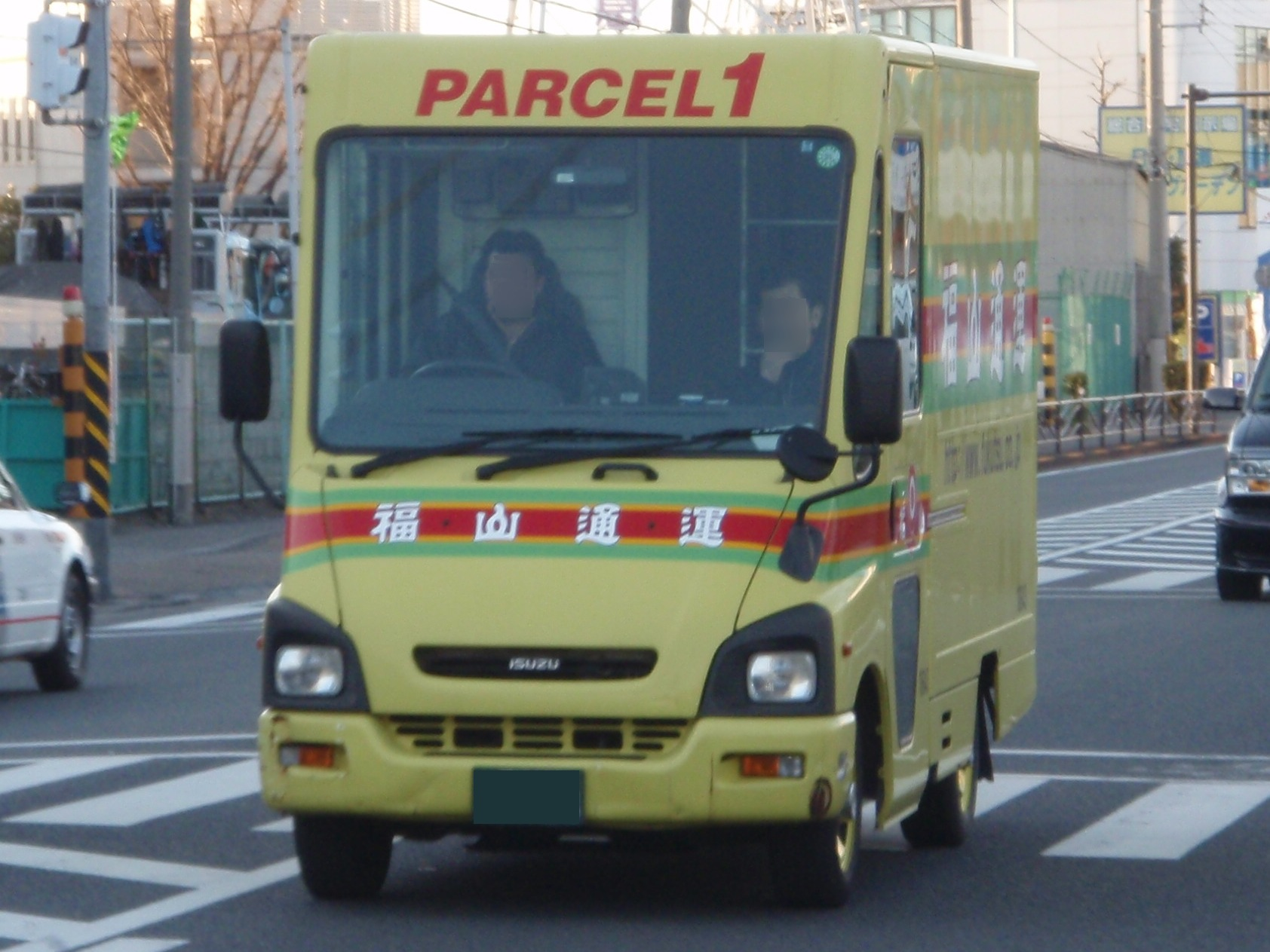 ISUZU BEGIN